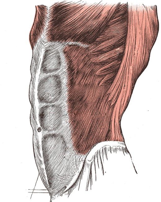 Remove of text to allow translation of it later.